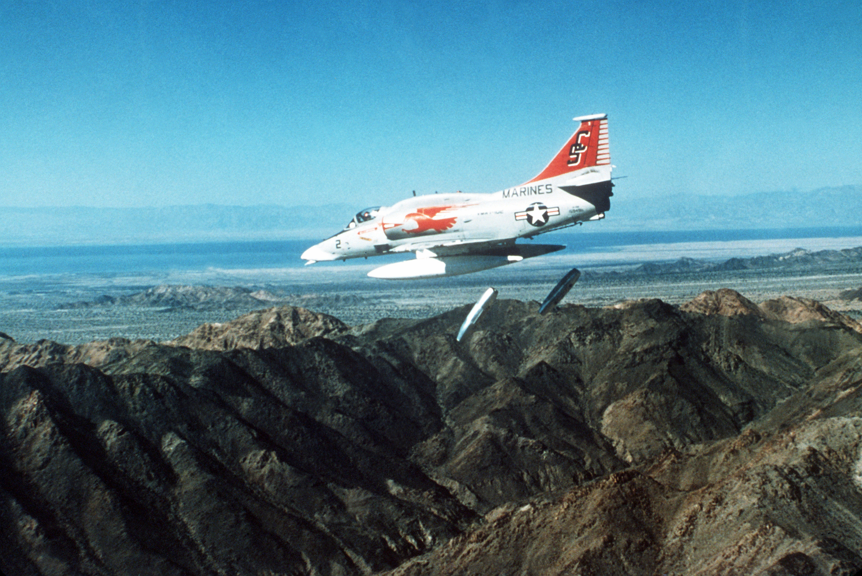 A U.S. Marine Corps Douglas A-4M Skyhawk (BuNo 159491) from Marine Attack Training Squadron 102 (VMAT-102) "Skyhawks" dropping two napalm canisters over a mountain area. Note: The National Archives give the location as "New River (North Carolina)" and the date "7 December 1998". The date must be wrong, as the A-4M was phased out in 1990. The type of painting also dates the photo to the 1970s. Also, VMAT-102 was stationed at MCAS Yuma in Arizona, which does look more like the countyside depicted, much in contrast to North Carolina.